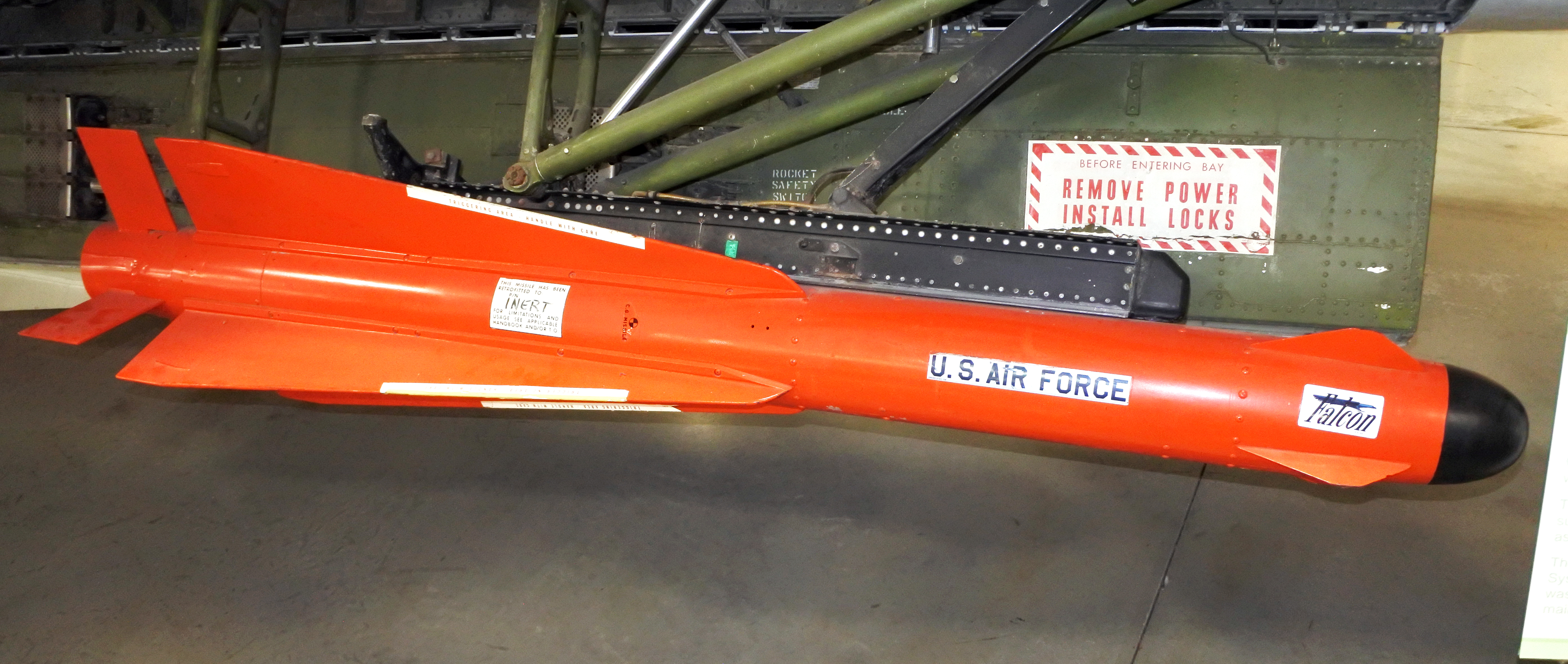 AIM-4 Falcon at Hill Air Force Base Museum.